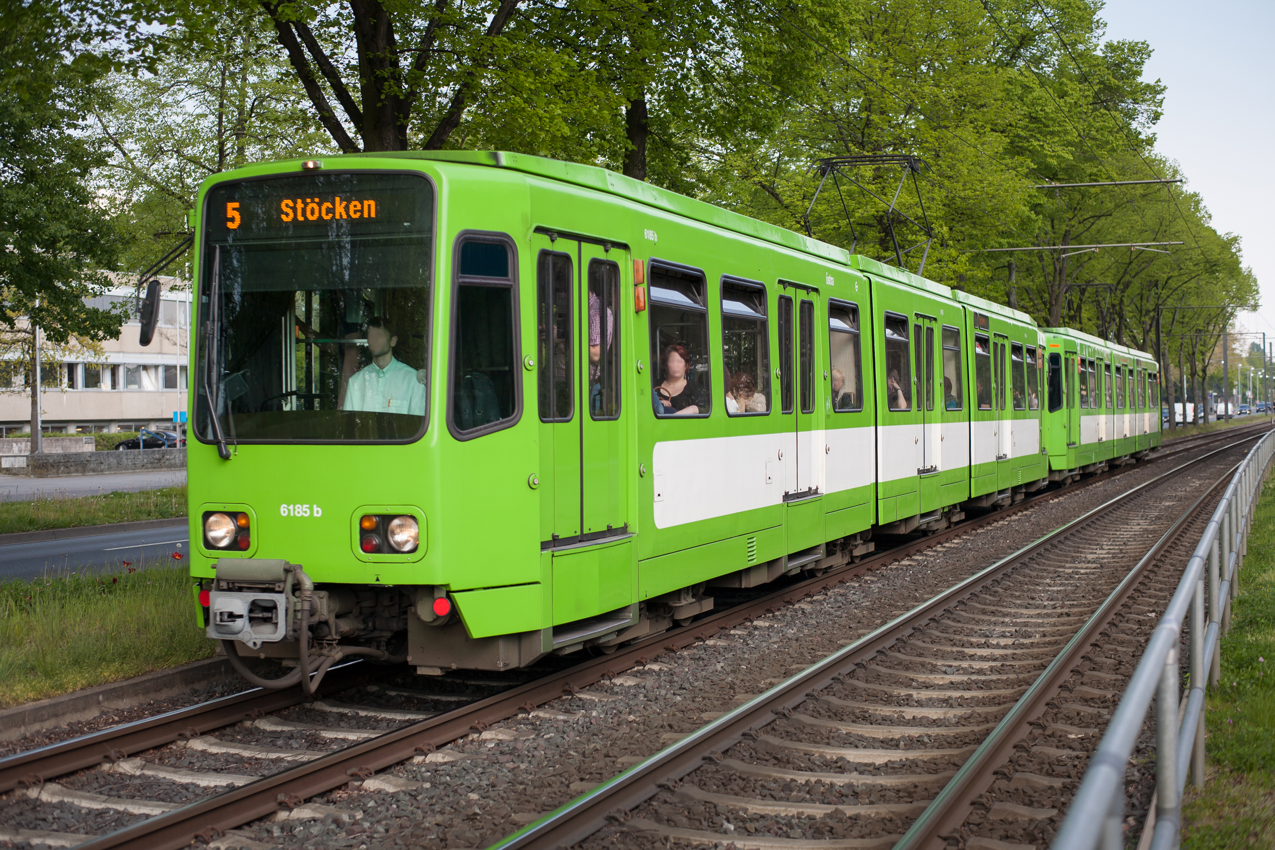 A TW 6000 train entering Schaumburgstrasse station en route to Stoecken. Hanover, Germany.